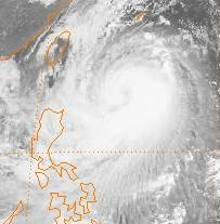 Satellite image of Typhoon Abby (1986)